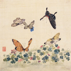 Hwajeopdo, literally picture of flowers and butterflies drawn by a 19th century Korean painter, Nam Gyewoo